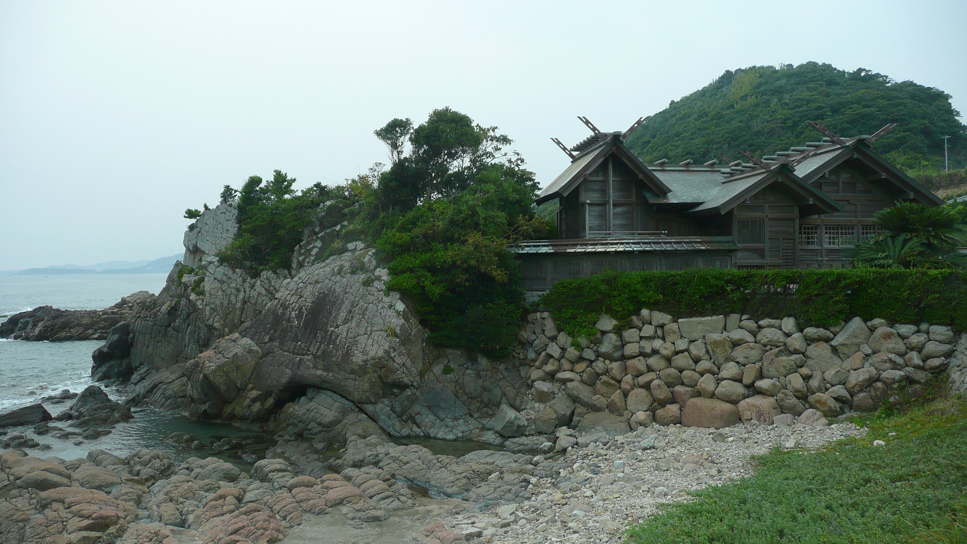 Ohmi Shrine (Hyuga City, Miyazaki Prefecture, Japan)